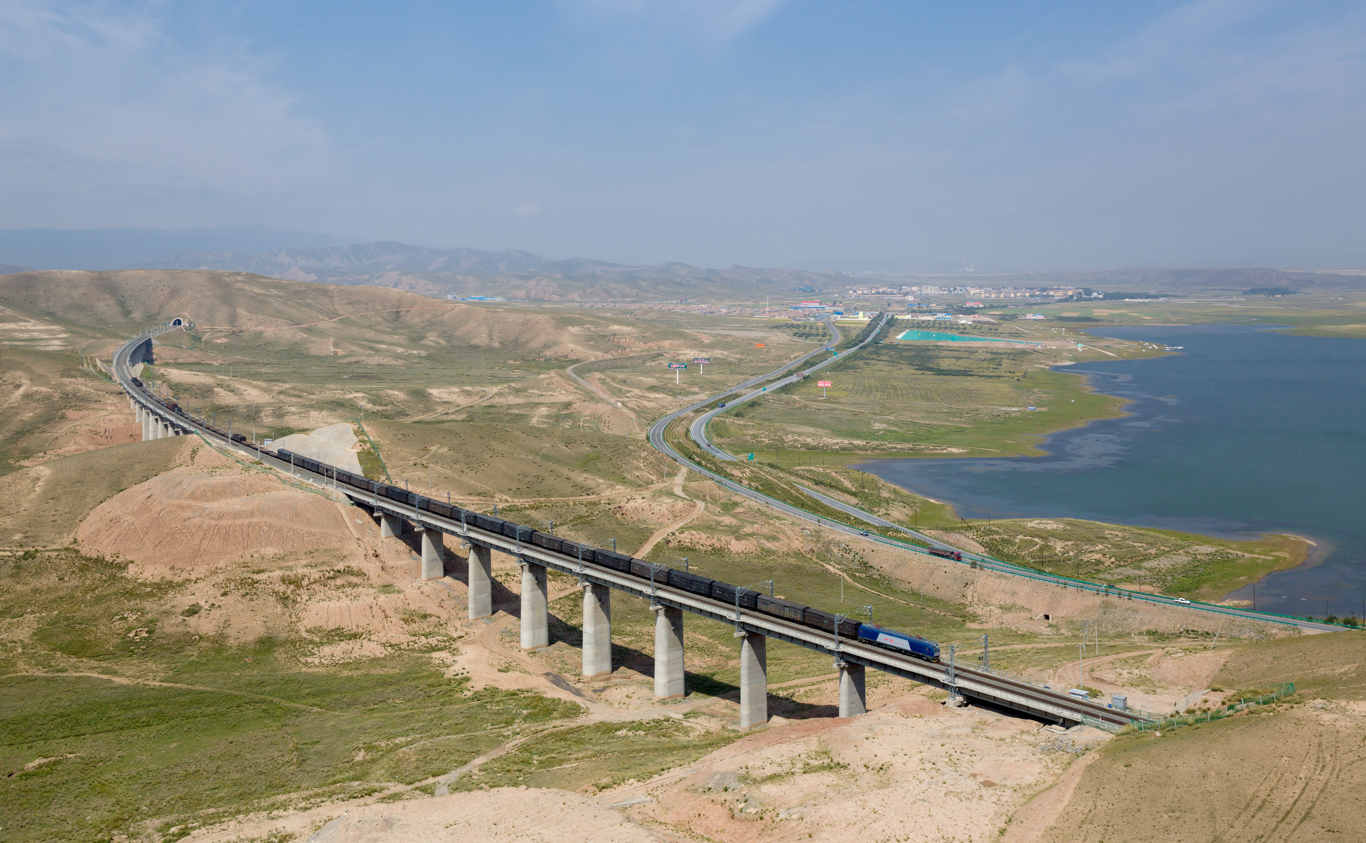 A China Railways HXD1C with a mixed freight train passes the Dongdatan Reservoir on its way from Golmud to Xining, China.